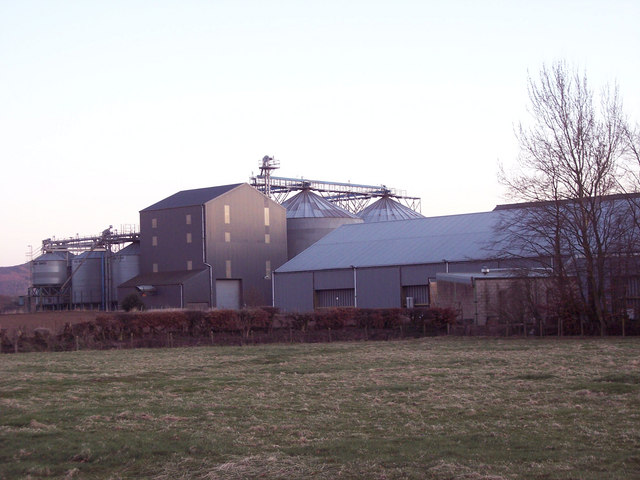 East of Scotland Farmers Limited Grain drying, storage and marketing co-operative, which also provides a full range of inputs and services including fertiliser, seed, chemicals, agronomy, advice, contracting and sundry supplies.